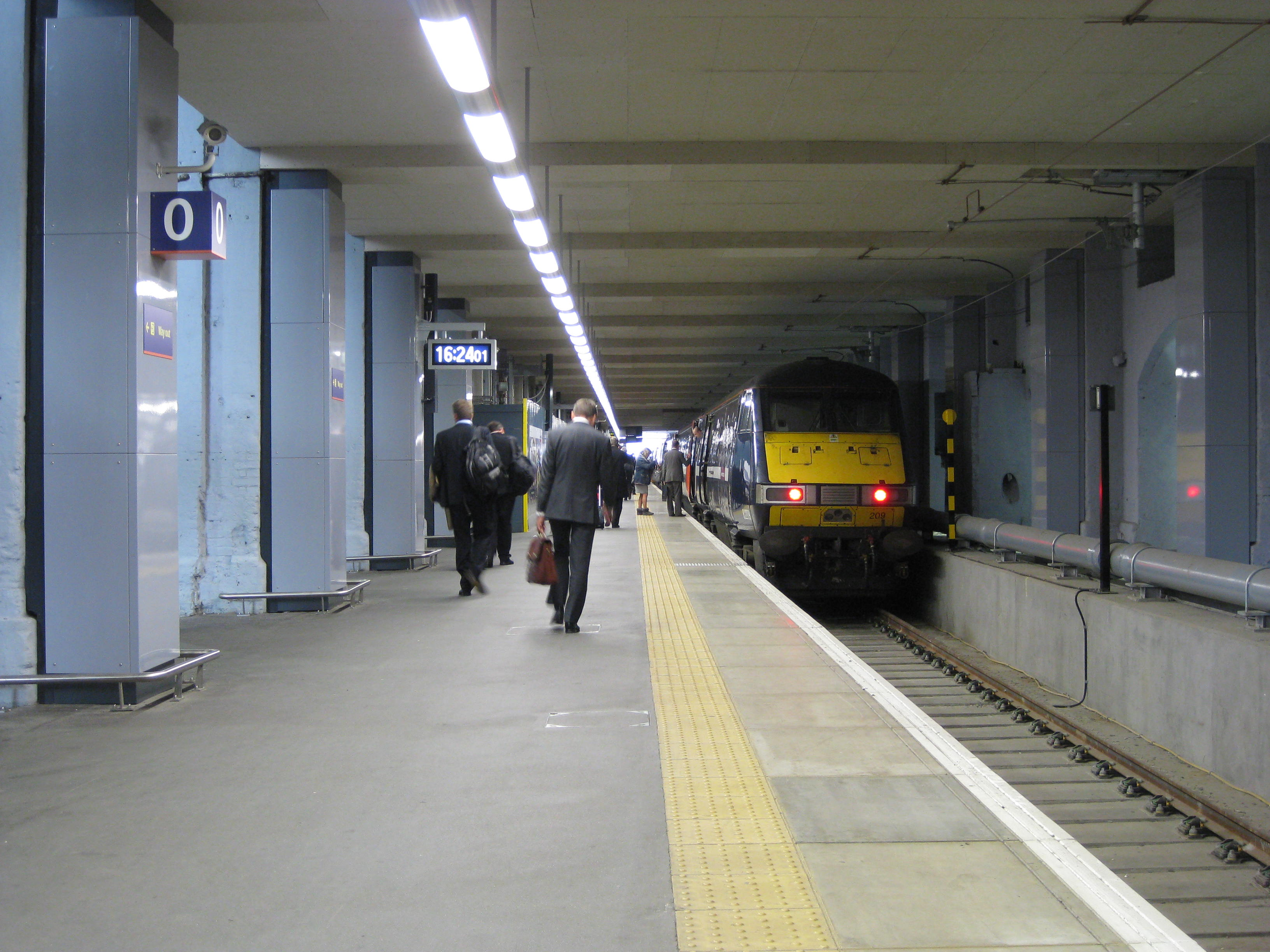 Platform Zero at Kings Cross Railway Station, London.